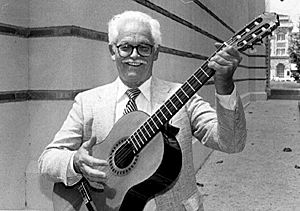 Guitar competition sponsor Edward Stotsenberg. After taking up classical guitar, he vowed to fund a first-class competition at USC.